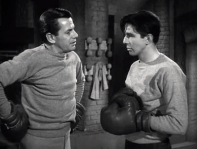 Richard Rober (left) & Leonard Nimoy in Kid Monk Baroni - cropped screenshot